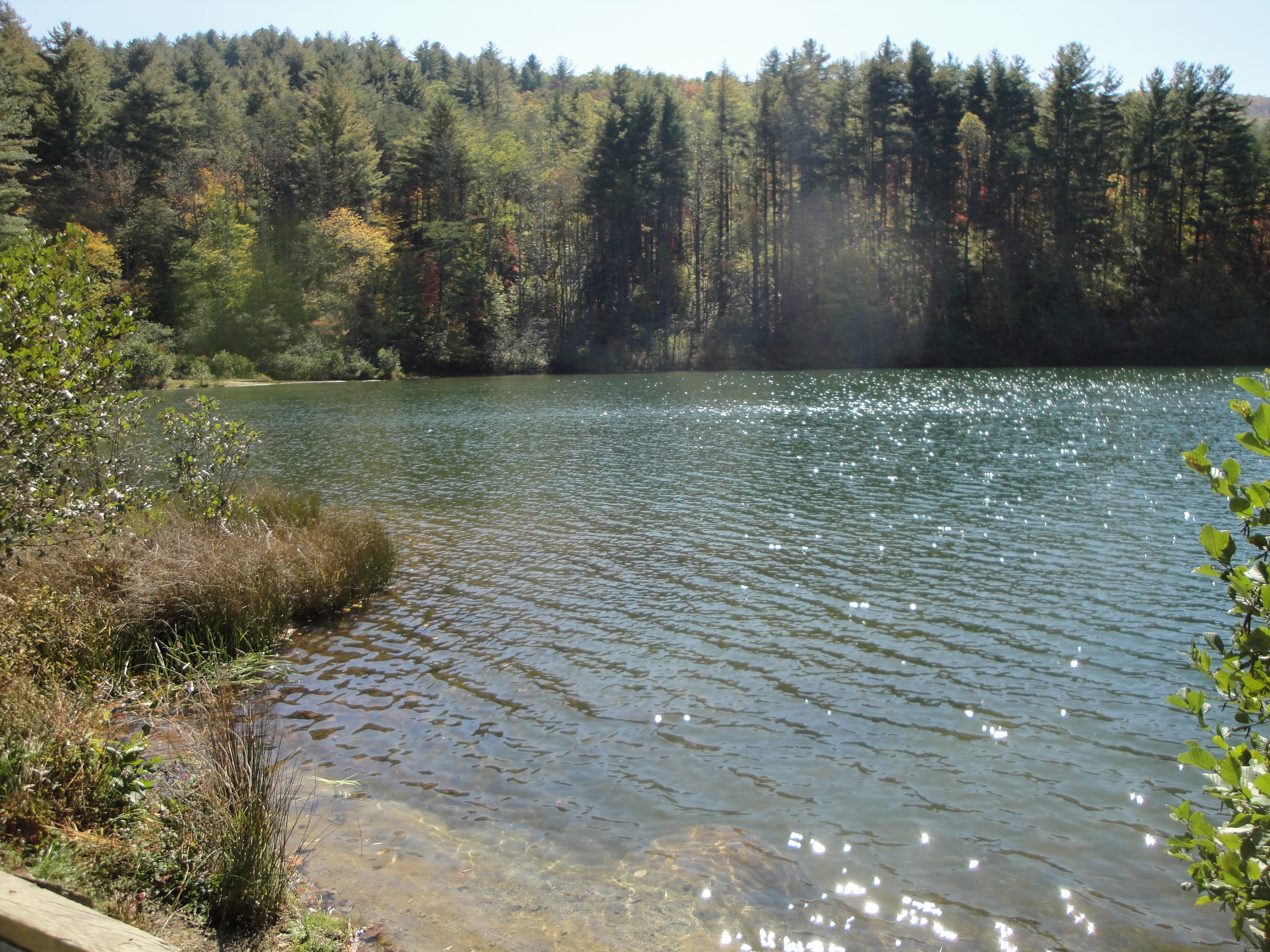 Black Rock Lake in Black Rock Mountain State Park